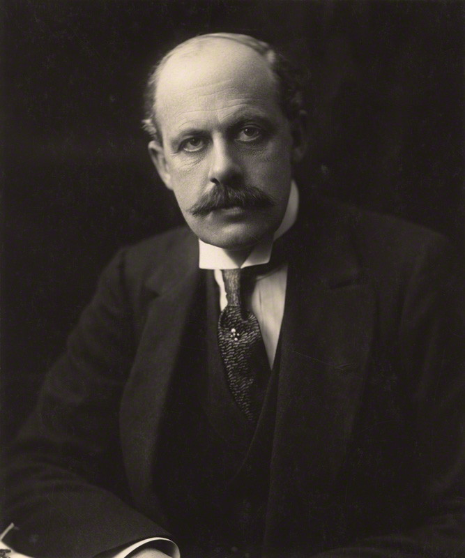 Portrait of Charles Eric Hambro